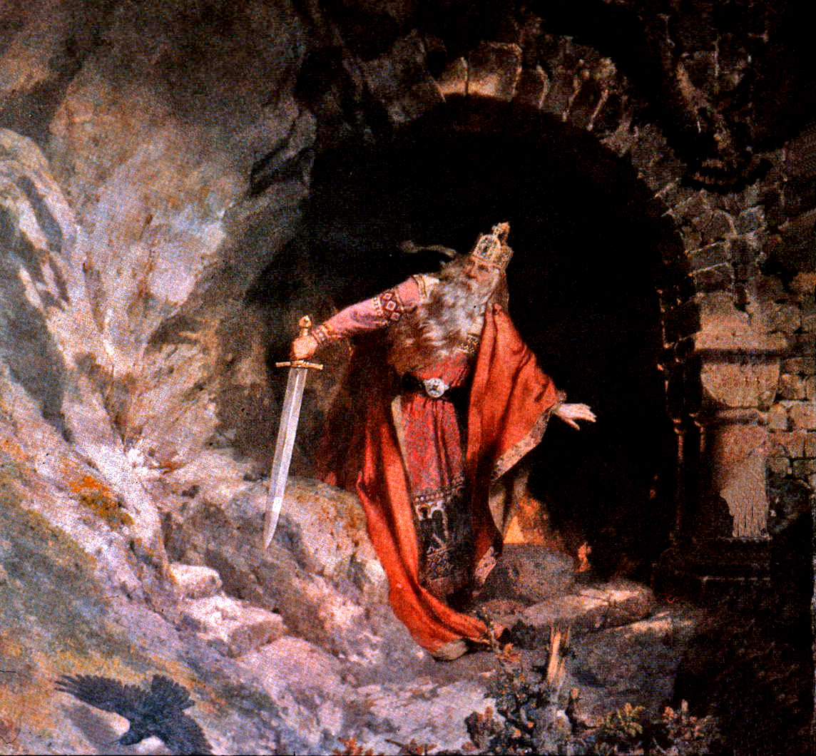 A depiction of the legends associated with Frederick I, painted by Hermann Wislicenus